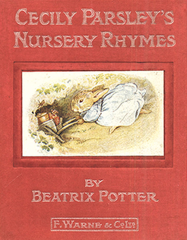 Cover of the first edition of Cecily Parsley's Nursery Rhymes